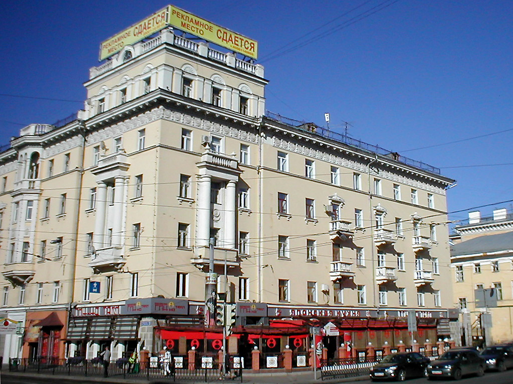 Stalin-type building Tuqay square in Kazan